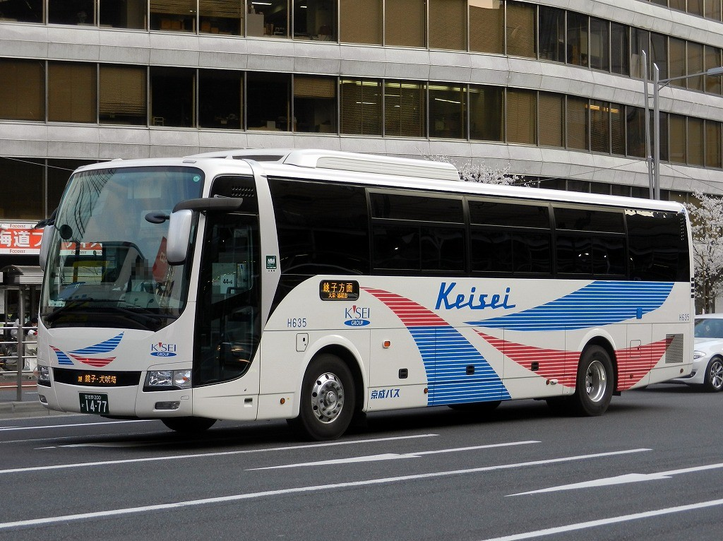 Keisei bus (Shin-Narashino highway depot) Mitsubishi Fuso Aero Ace (QRG-MS96VP)